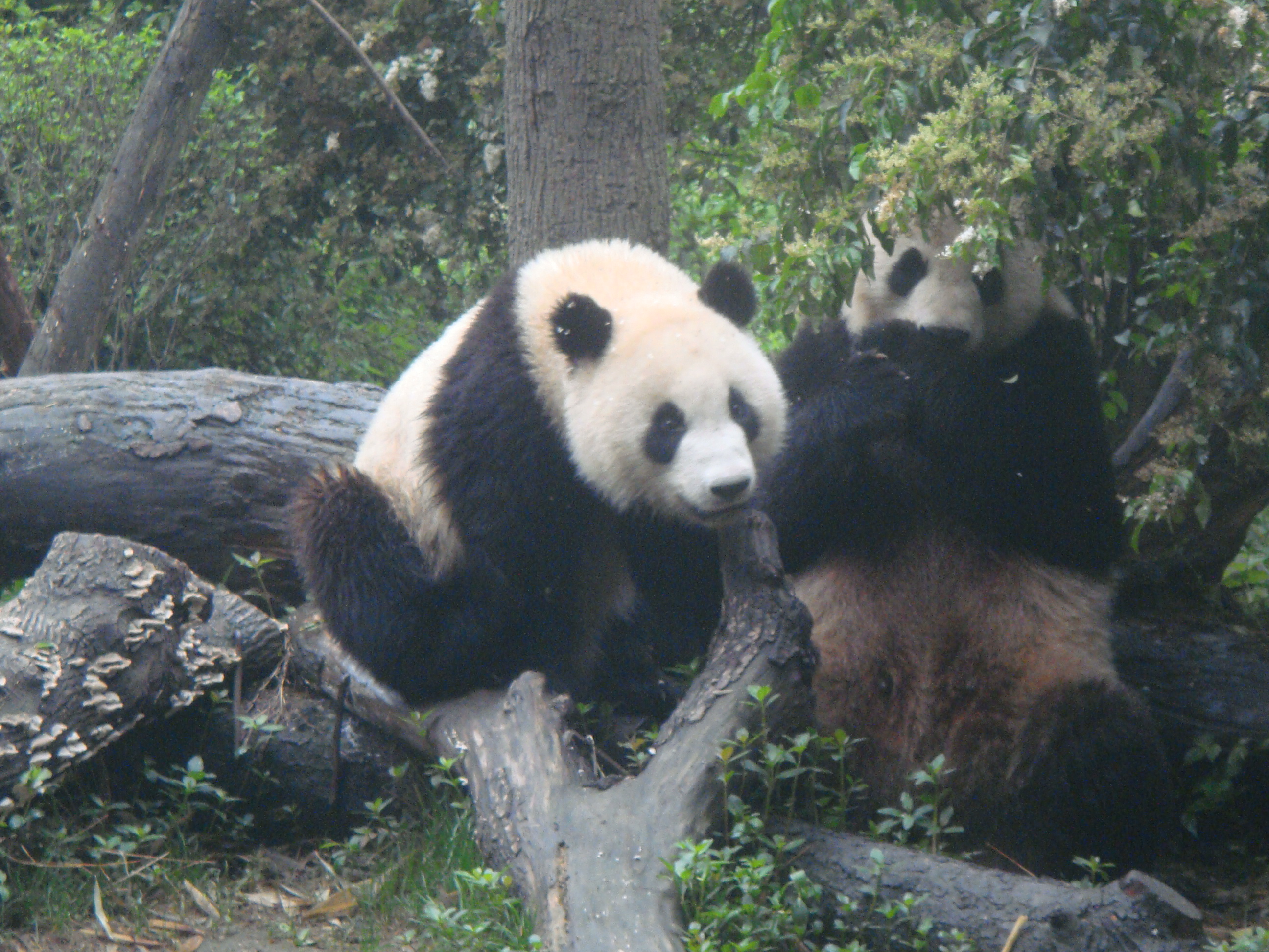 Giant Panda at Chendgu, China